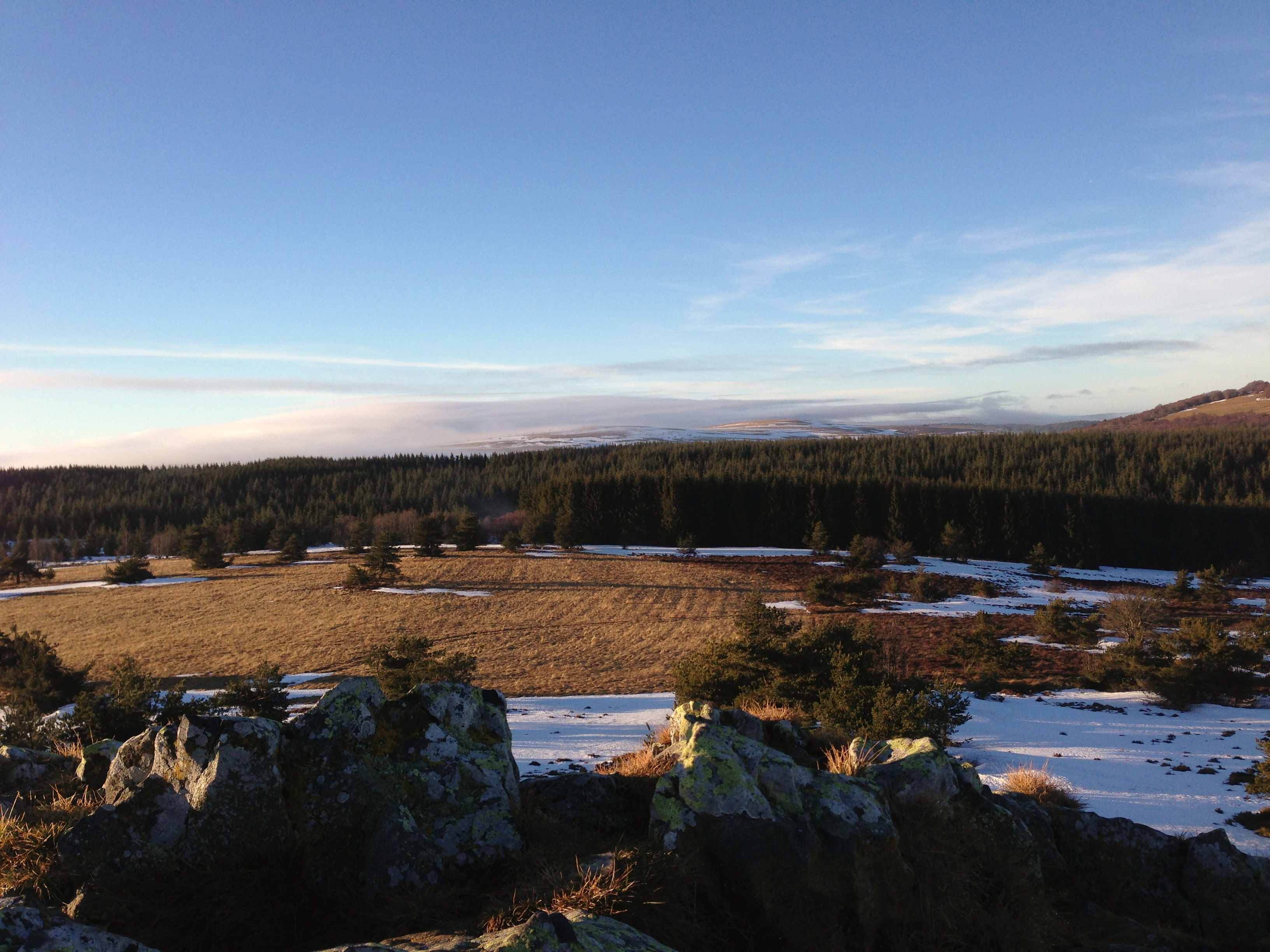 Vue sur Pierre sur haute dans la brume depuis le sommet de la pierre bazanne.